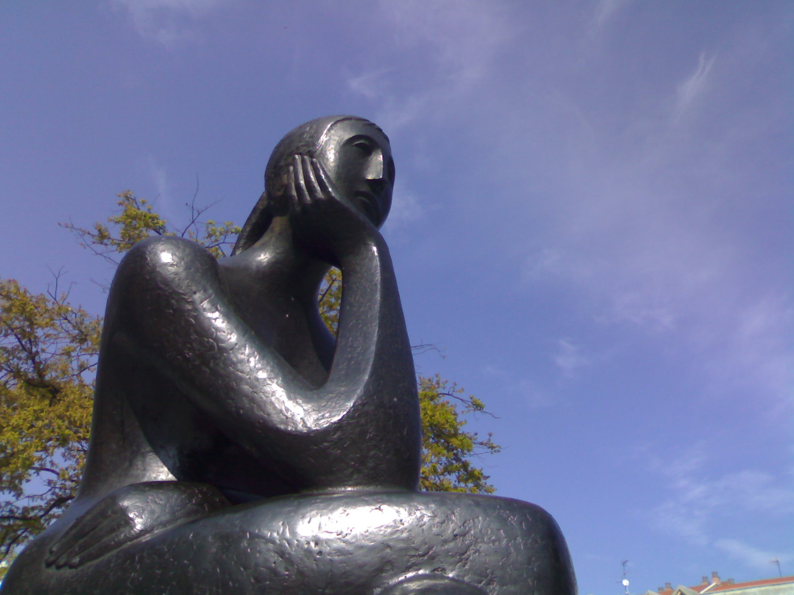 metal statue of a woman thinking, entitled "la Pensadora" by José Luis Fernández in Oviedo, Asturias, Spain, ca. 1968/1976